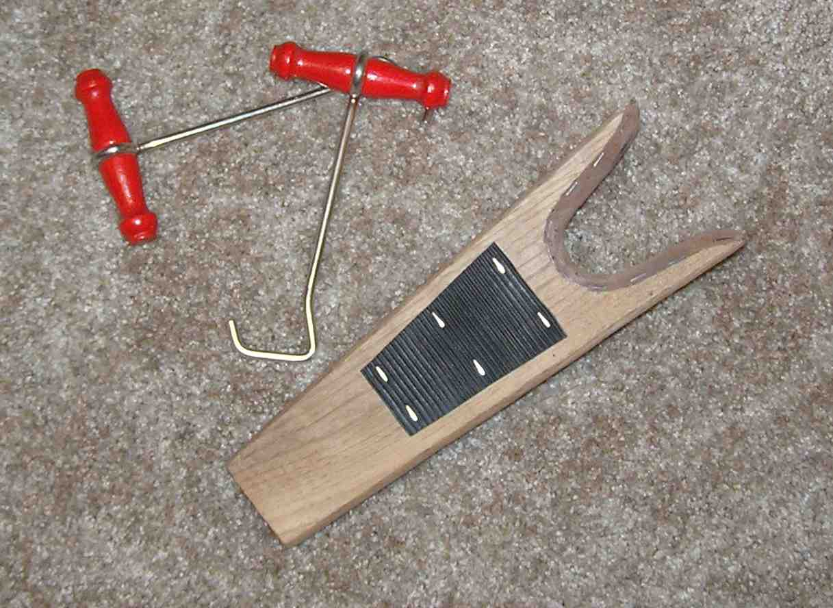 Boot hooks and a bootjack, often needed to get tall boots on and off